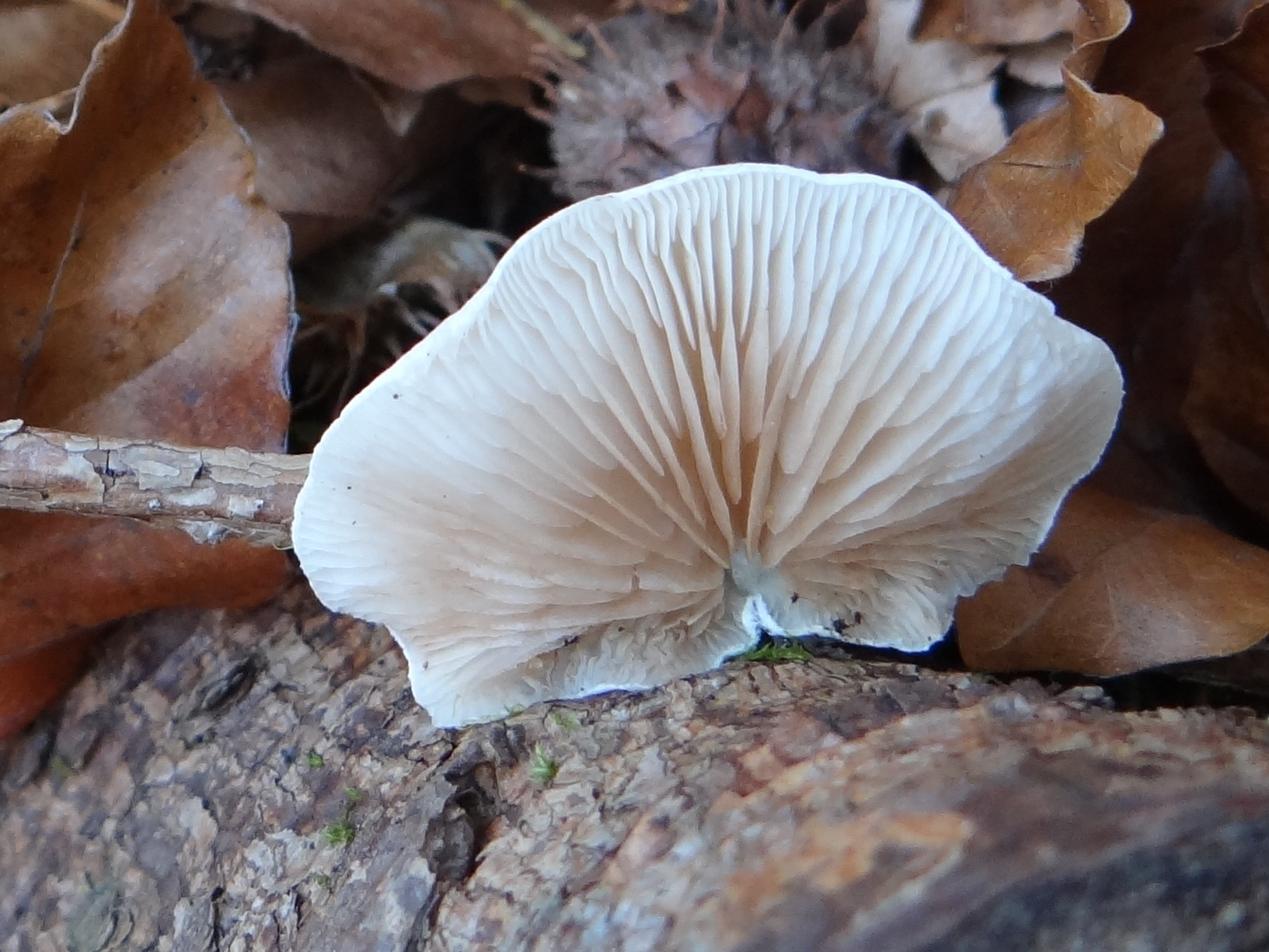 Crepidotus variabilis (location: Poland)